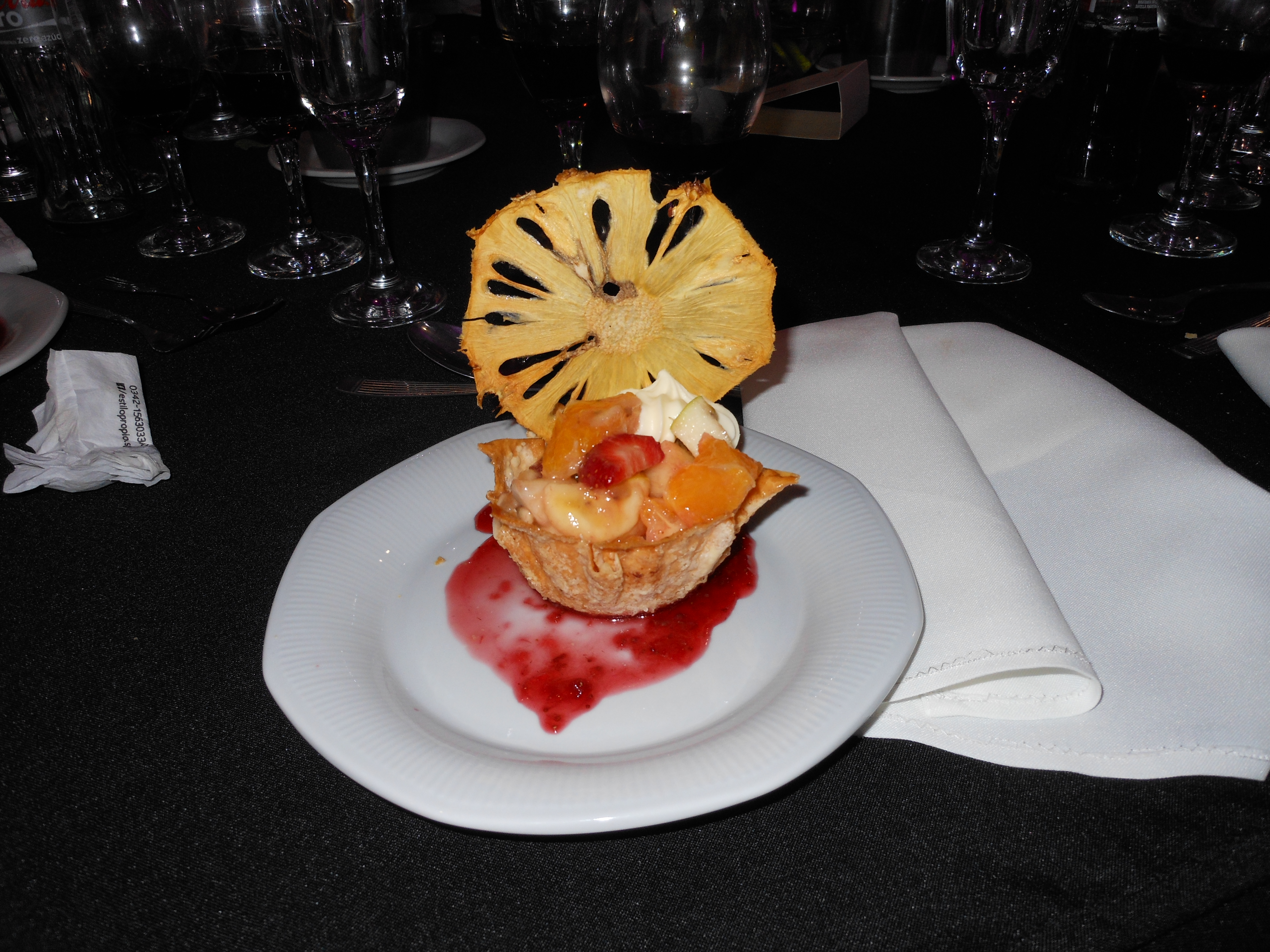 Anana dessert